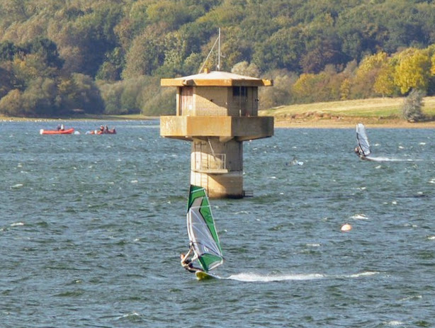 Wind surfing near the Limnological Tower